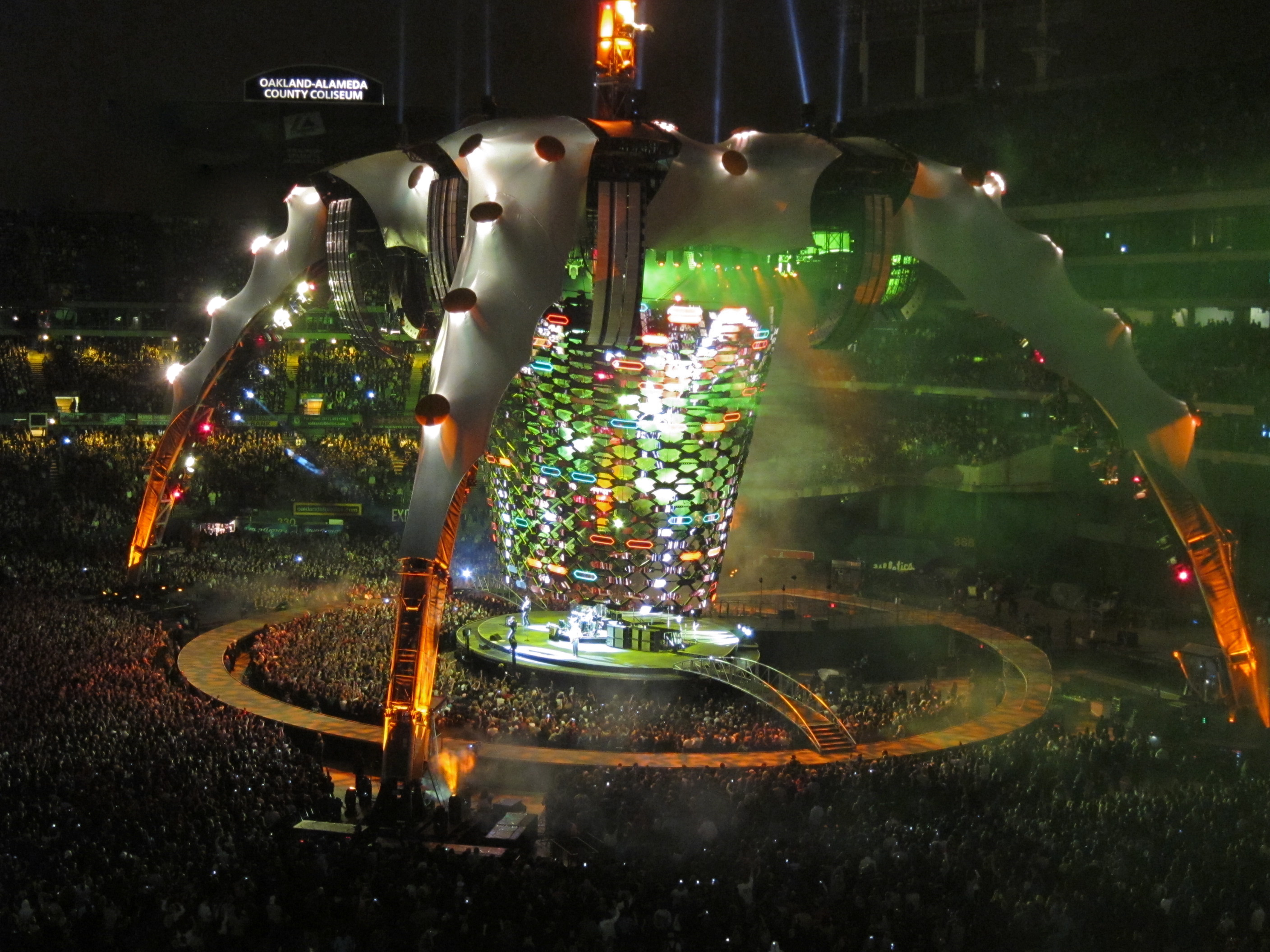 U2 performing "Zooropa" in Oakland, California on the U2 360° Tour